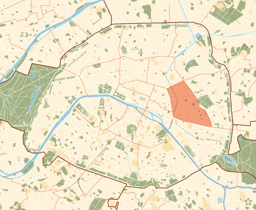 Plan by ThePromenader (own work)